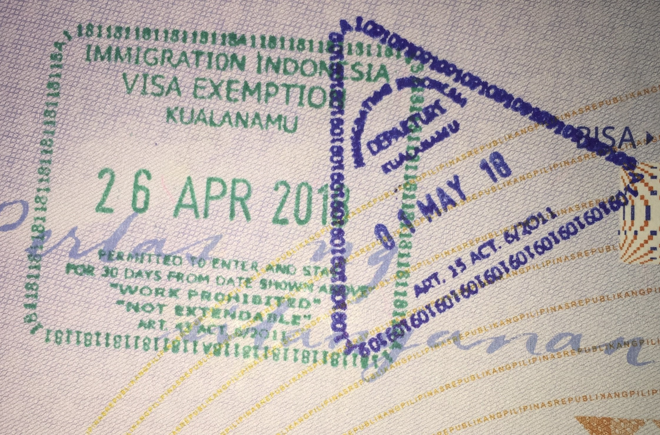 Indonesia Entry Exit Stamps on a Philippine Passport